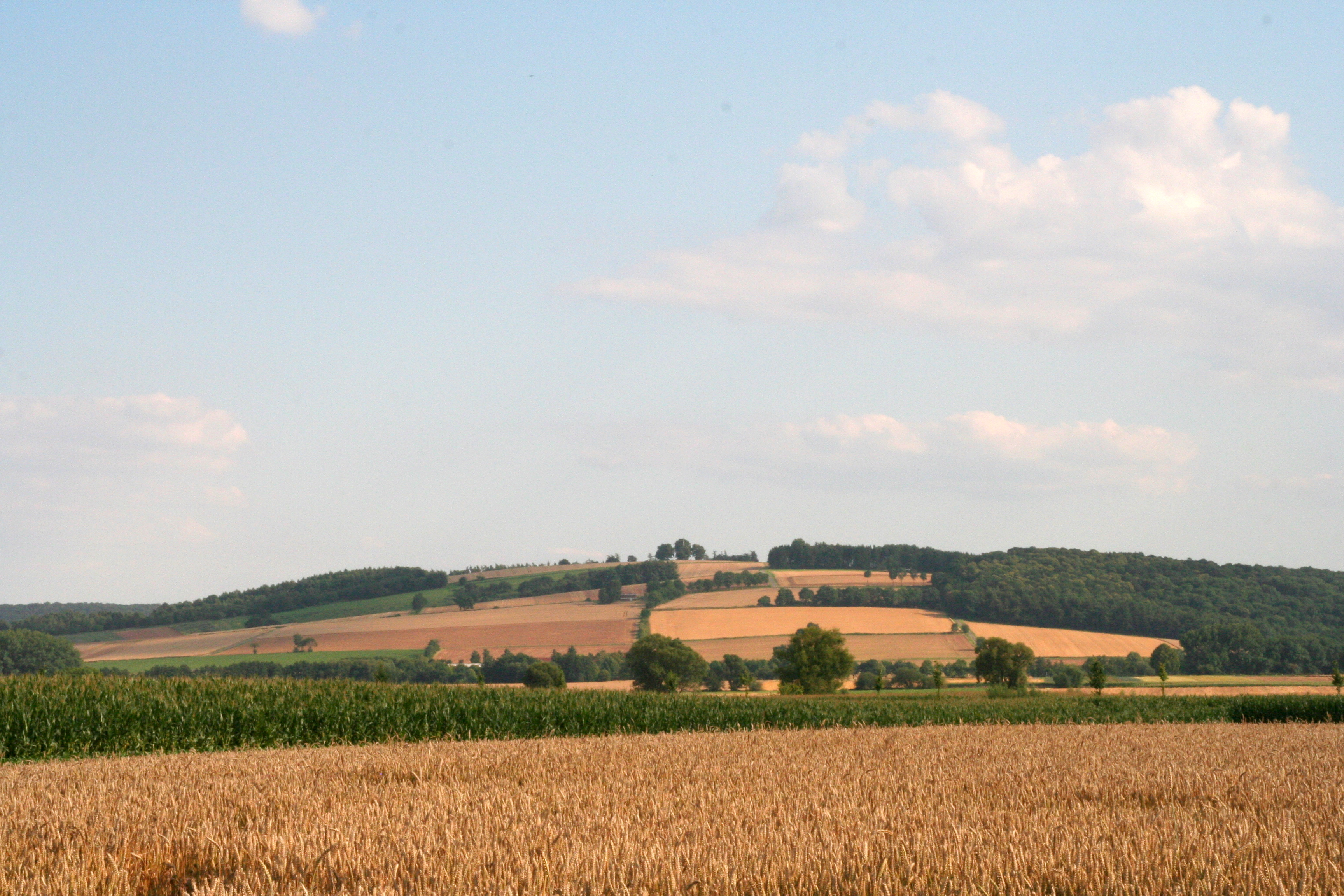 Euzenberg, near Duderstadt, district of Göttingen